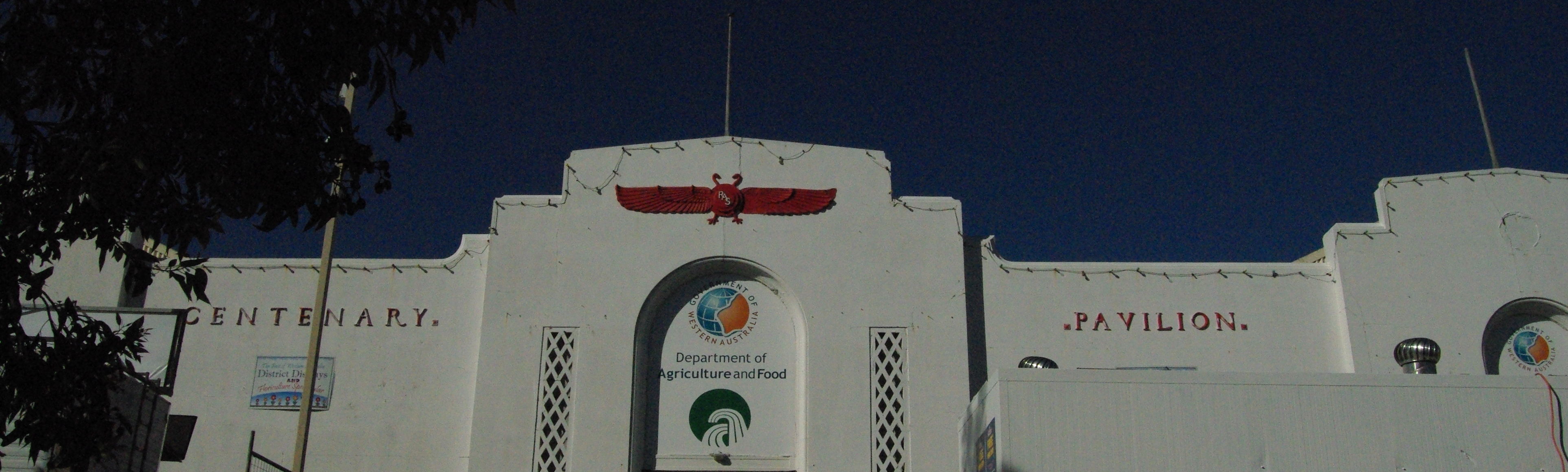 Centenary Pavilion at Royal Show Ground Claremojnt, Western Australia